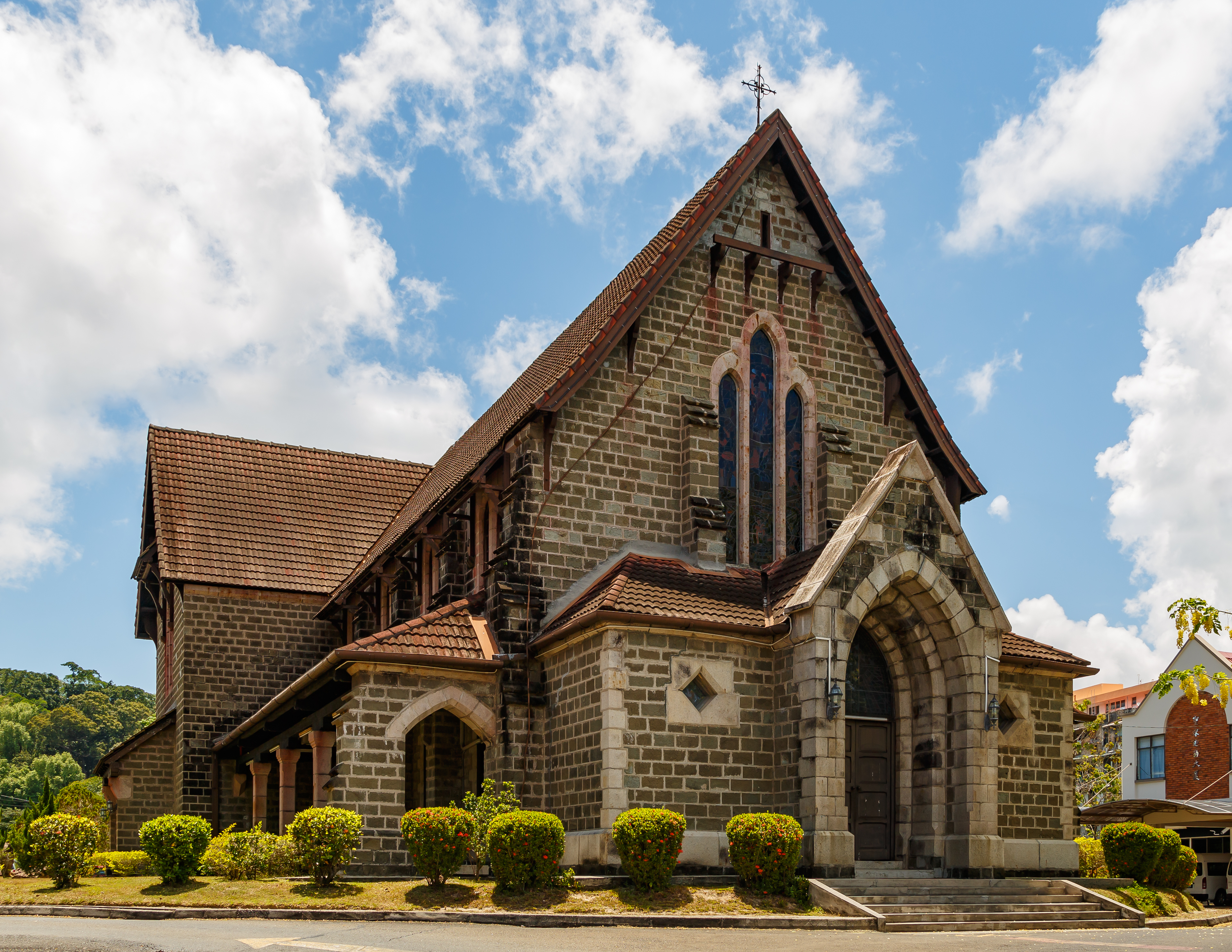 Sandakan, Sabah: St. Michael in Sandakan, main entrance